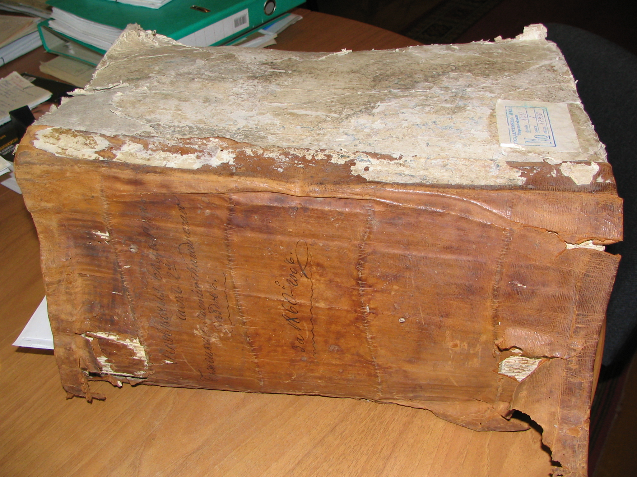 Ispovedalnaya vedomost Tverskoy gubernii 1860